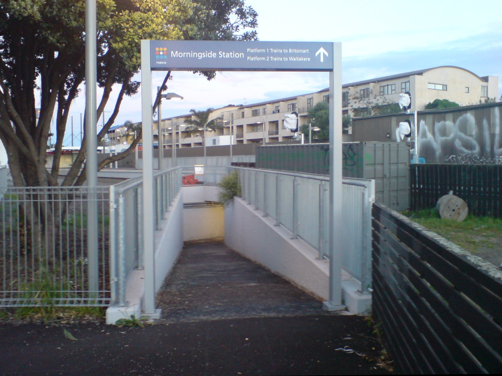 Looking east at the underpass that leads to the Morningside Train Station's platform in Auckland, New Zealand.